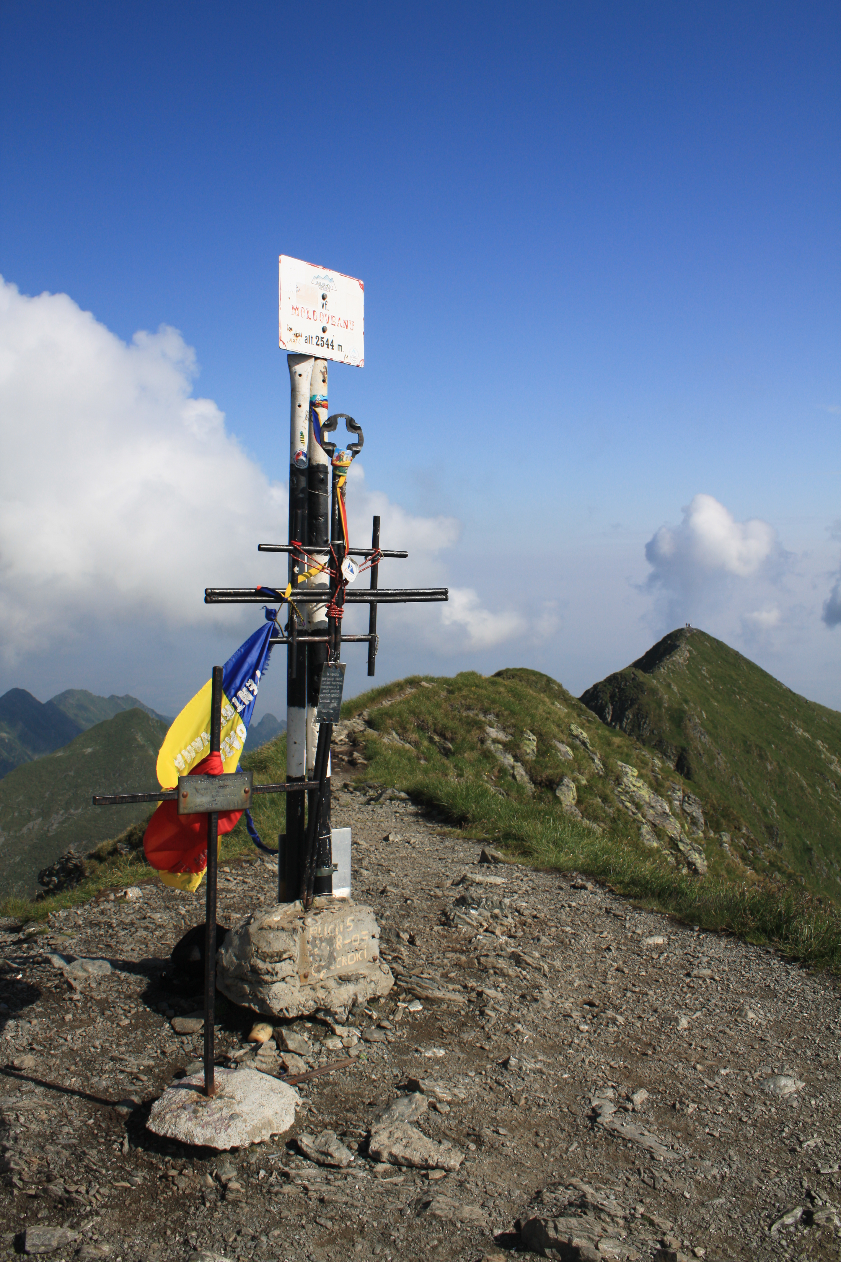 Făgăraş Mountains, Romania - Top of Moldoveanu